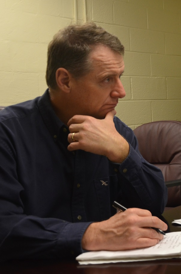 Richard E. Killblane, Transportation Corps historian, left, interviews 1st Lt. Simon Johnstone, 689th Rapid Port Opening Element forward distribution platoon leader, about the unit's recent deployment to Haiti. The 689th RPOE was part of a joint task force which provided humanitarian assistance by coordinating the receipt, sorting, and delivering of supplies to the hardest hit areas of Haiti following Hurricane Matthew. Killblane conducted interviews with several members of the 689th and 690th RPOEs, 833rd Transportation Ballation, and 597th Transportation Brigade for an RPOE deployment historical document. (Photo Credit: Mr. Zack Shelby (597th Transportation Brigade))